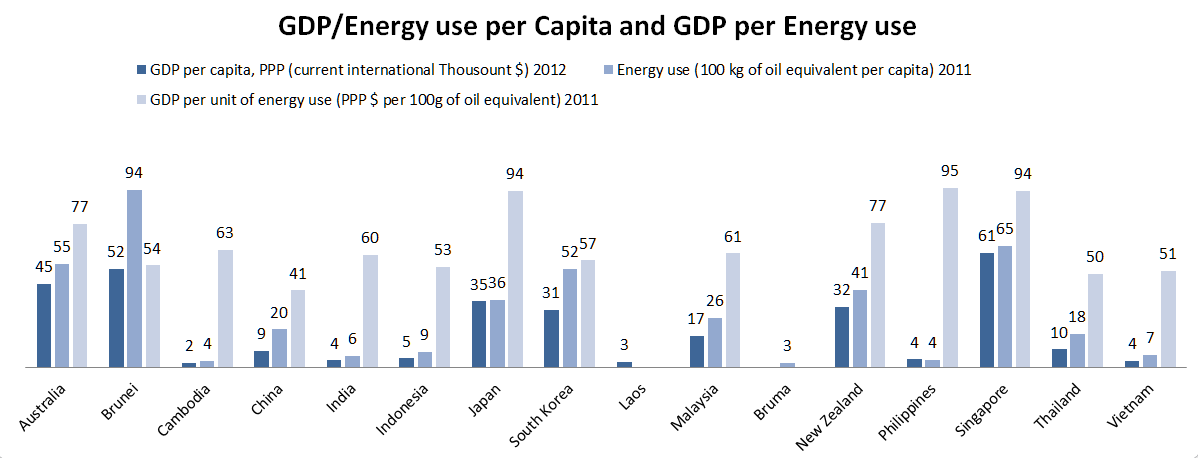 RCEP Member : GDP/Energy use per capita and GDP per Energy use (The World Bank)